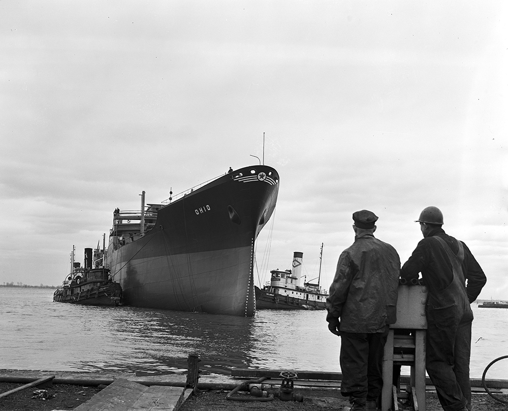 Title: The Texas Co., Launching of the Ohio Creator: Robert Yarnall Richie Date: April 22, 1940 Part Of: Robert Yarnall Richie Photograph Collection Place: Chester, Pennsylvania Physical Description: 1 negative: film, black and white; 10.1 x 12.8 cm. File: ag1982_0234_2130_T_texasco_sm_opt.jpg Rights: Please cite DeGolyer Library, Southern Methodist University when using this file. A high-resolution version of this file may be obtained for a fee. For details see the web page. For other information, . For more information and to view the image in high resolution, View the Robert Yarnall Richie photograph collection